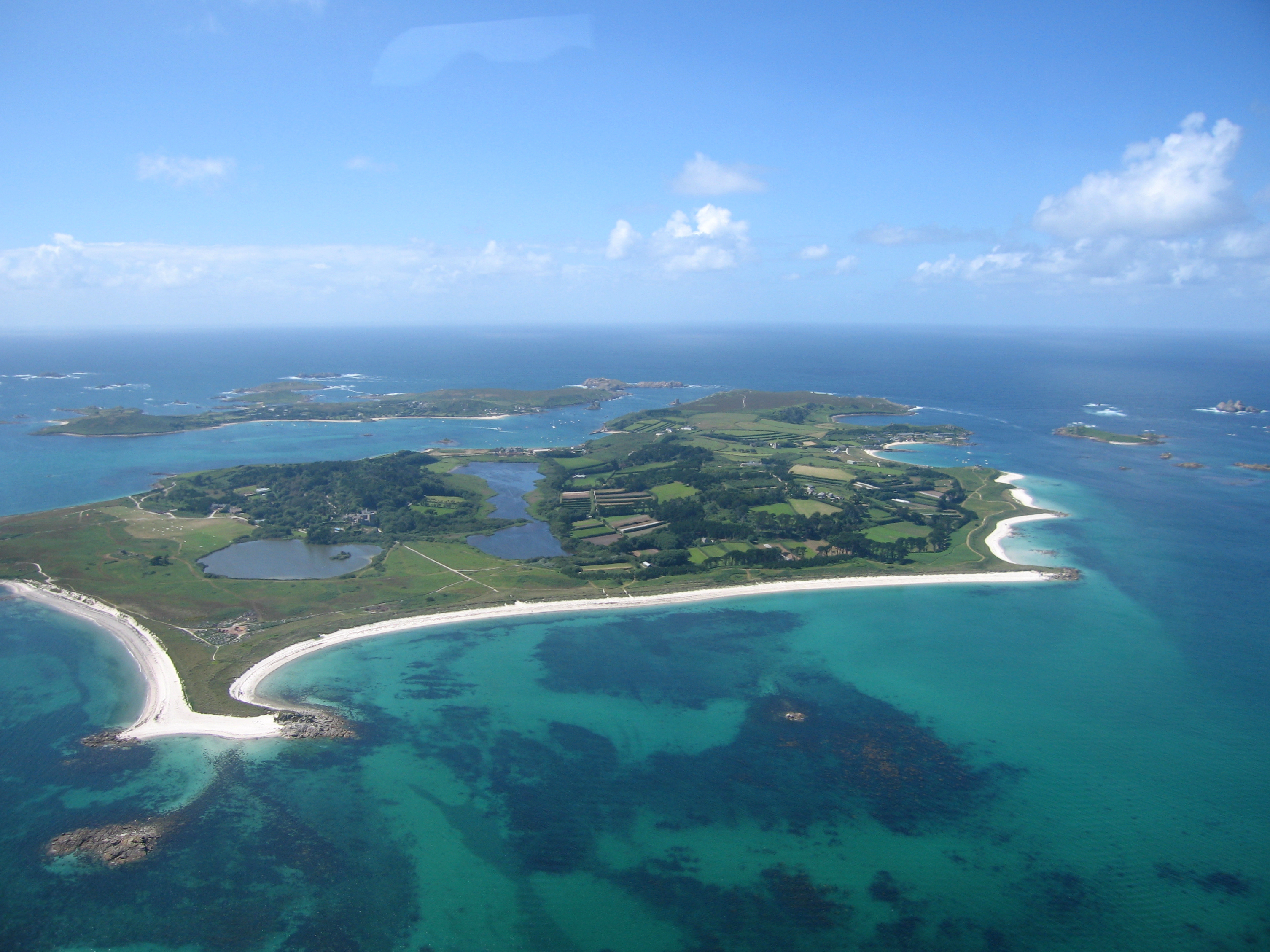 Looking across Tresco, one of the five inhabited islands of the Isles of Scilly 45 km (28 miles) from the coast of Cornwall in the United Kingdom. Photo taken from a helicopter using a Canon PowerShot S70 camera in June 2005.